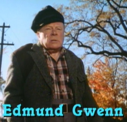 Cropped screenshot of Edmund Gwenn from the trailer for the film The Trouble with Harry.